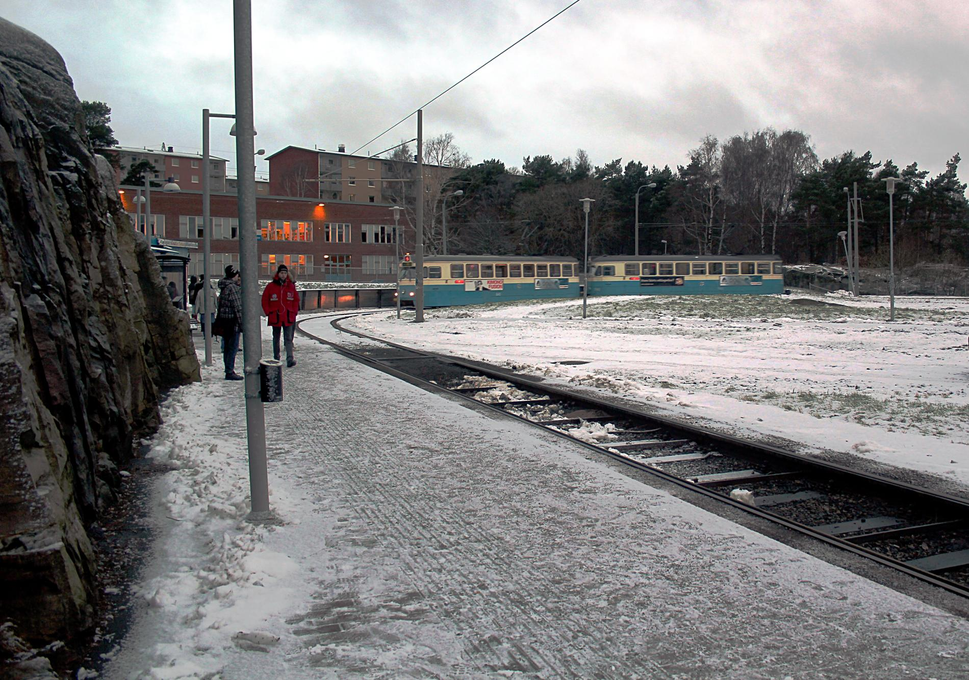 Tram 5 turning on the stop Varmfrontsgatan, Gothenburg, Sweden